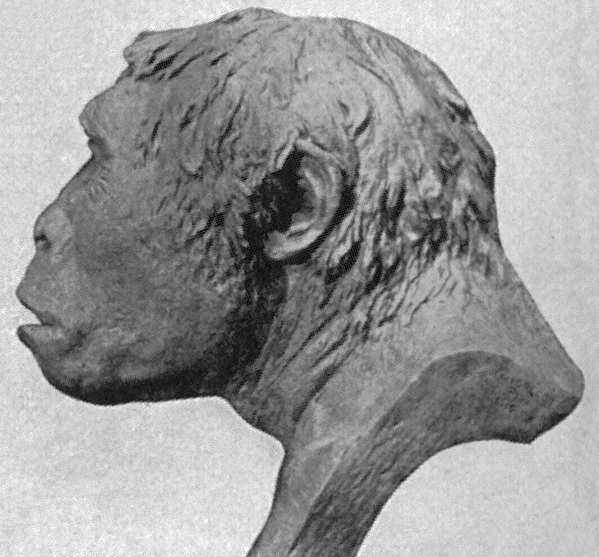 After a model by J. H. McGregor. PROFILE VIEW OF HEAD OF PITHECANTHROPUS, THE JAVA APE MAN, RECONSTRUCTED FROM THE SKULL-CAP.